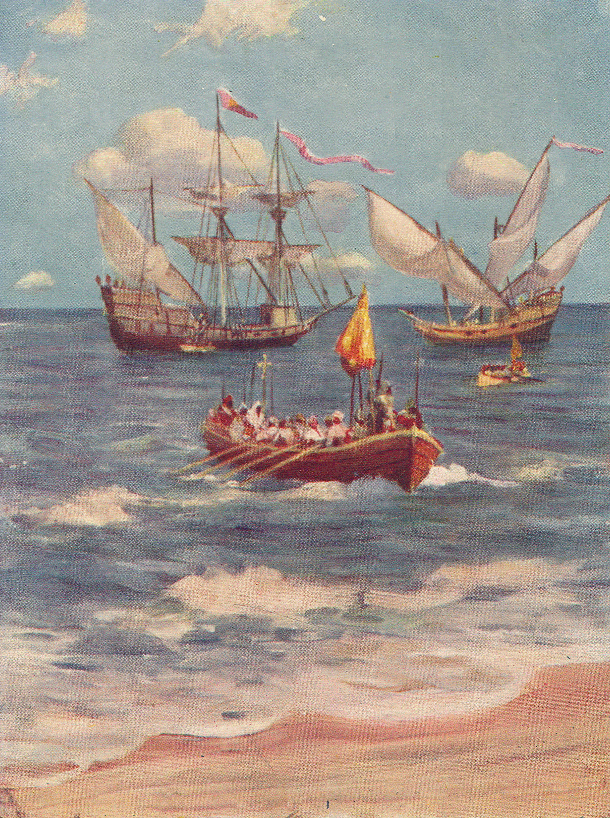 This history of India begins well before era of British colonization, during the age of the invasion of Alexander the Great, which was the west's first contact with the east. For much of the next millennium various Moslem lords rules parts of northern India. Finally, in the eighteenth century, France and Britain contested for control of the Asian trade centered in India, and for the following two centuries, India was Britain's most important colony.